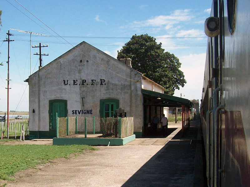 Sevigné train station